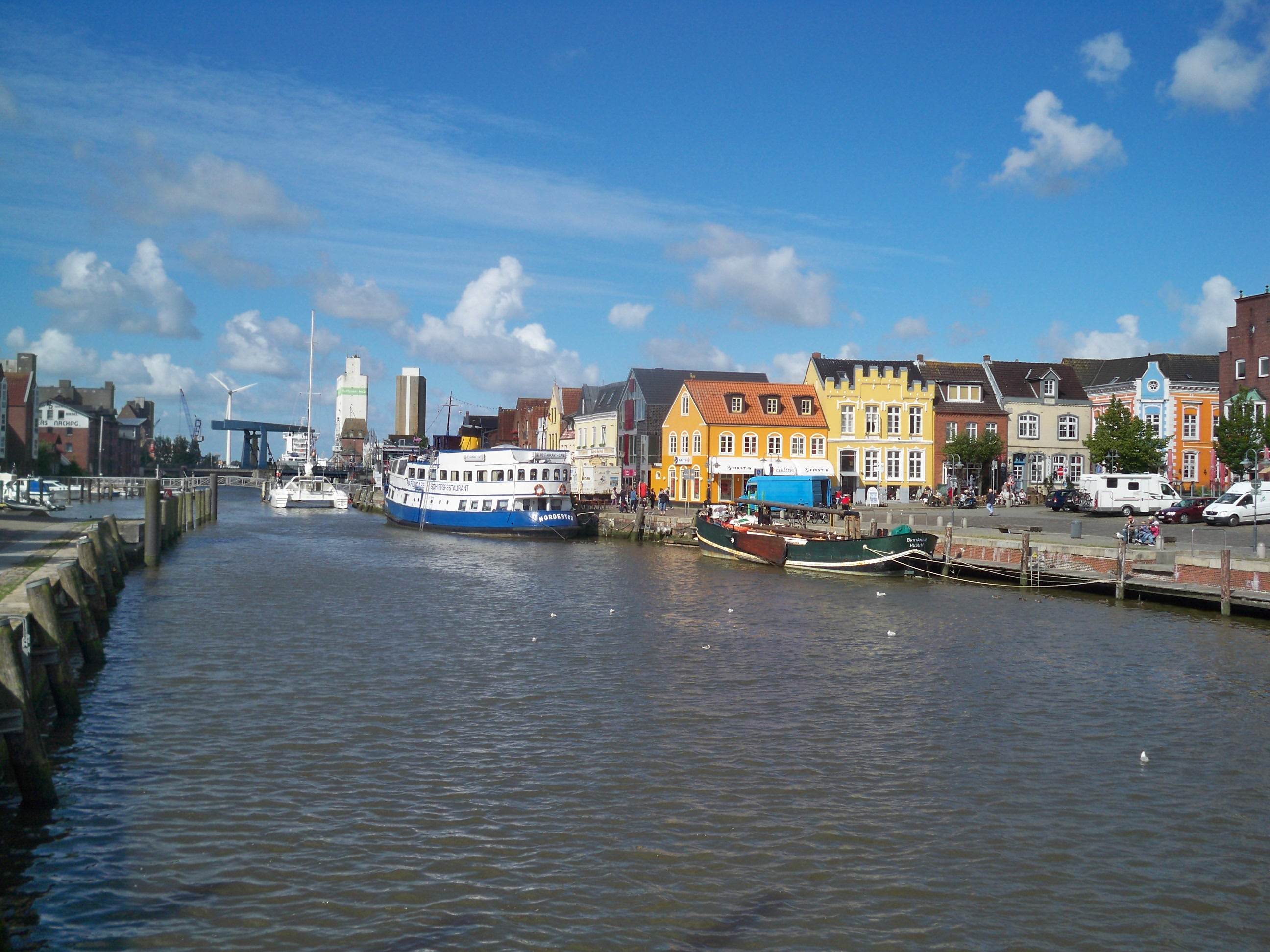 Husum, Schleswig-Holstein, interior port, facing eastwards